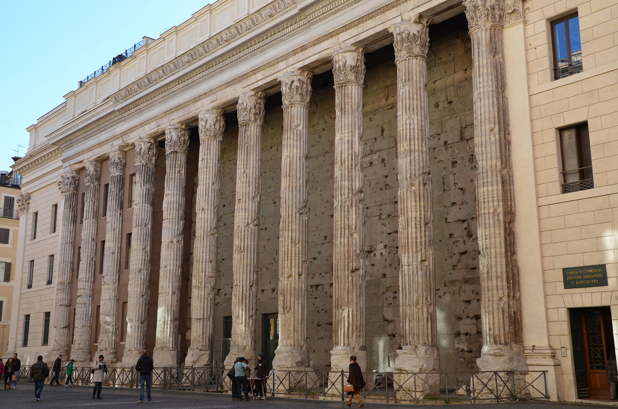 A surviving side colonnade of the Temple of Hadrian